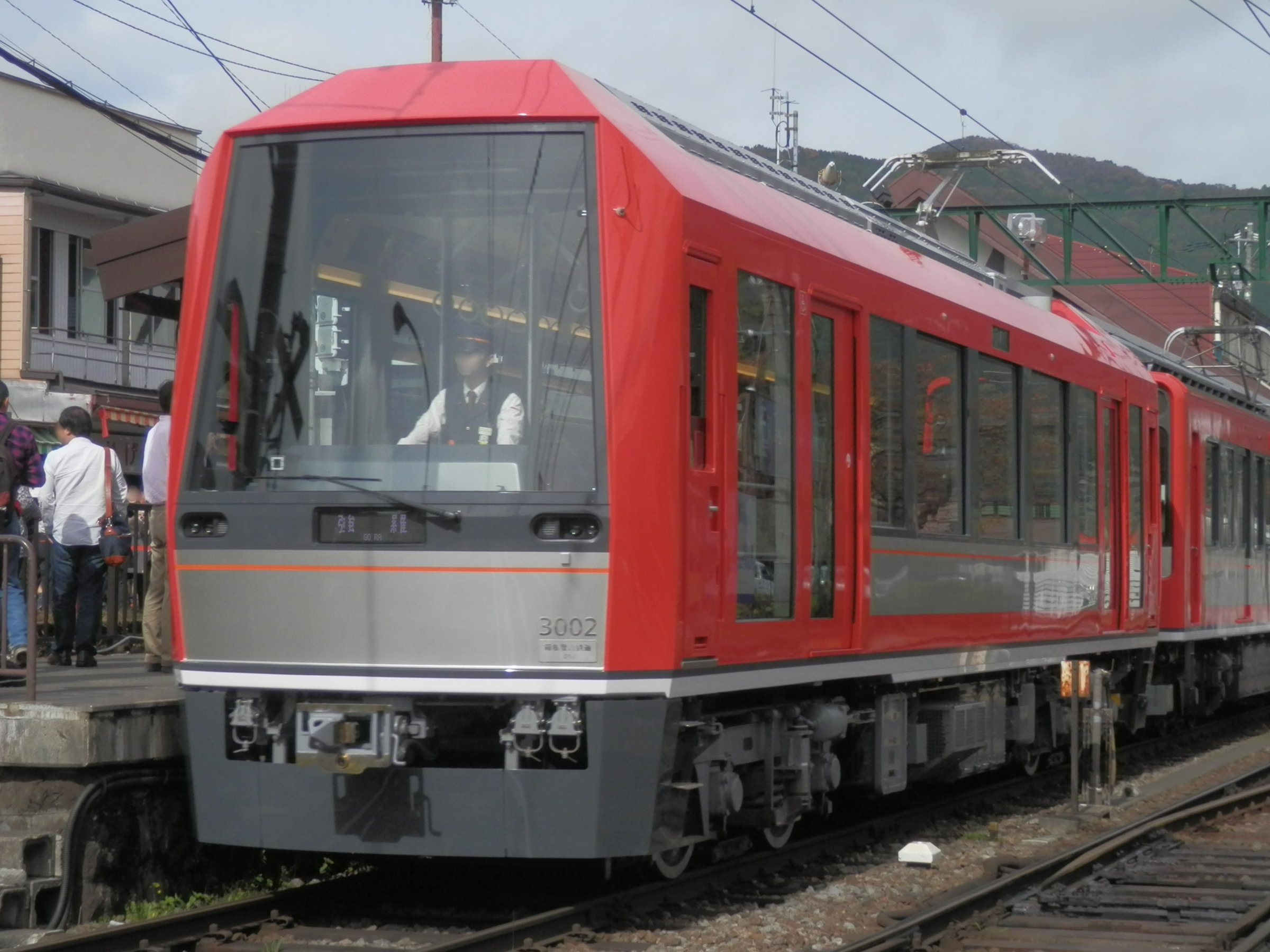 Hakone Tozan Railway series 3000 "Allegra" EMU car 3002 at Gōra Station